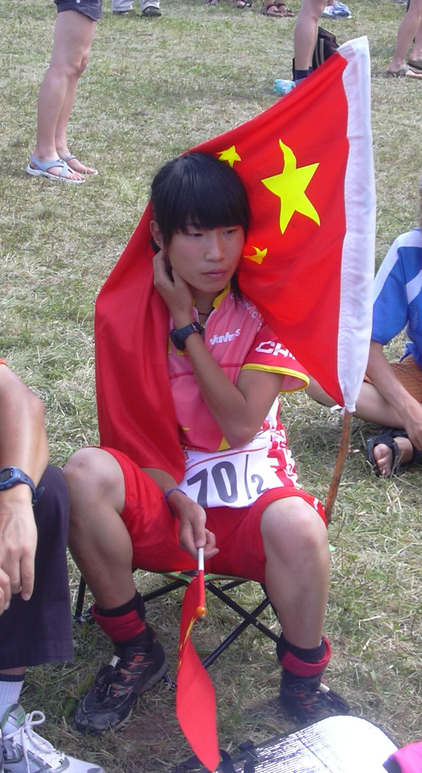 World Orienteering Championships 2008 in Olomouc, Czech Republic. On photo Shuangyan Hao.